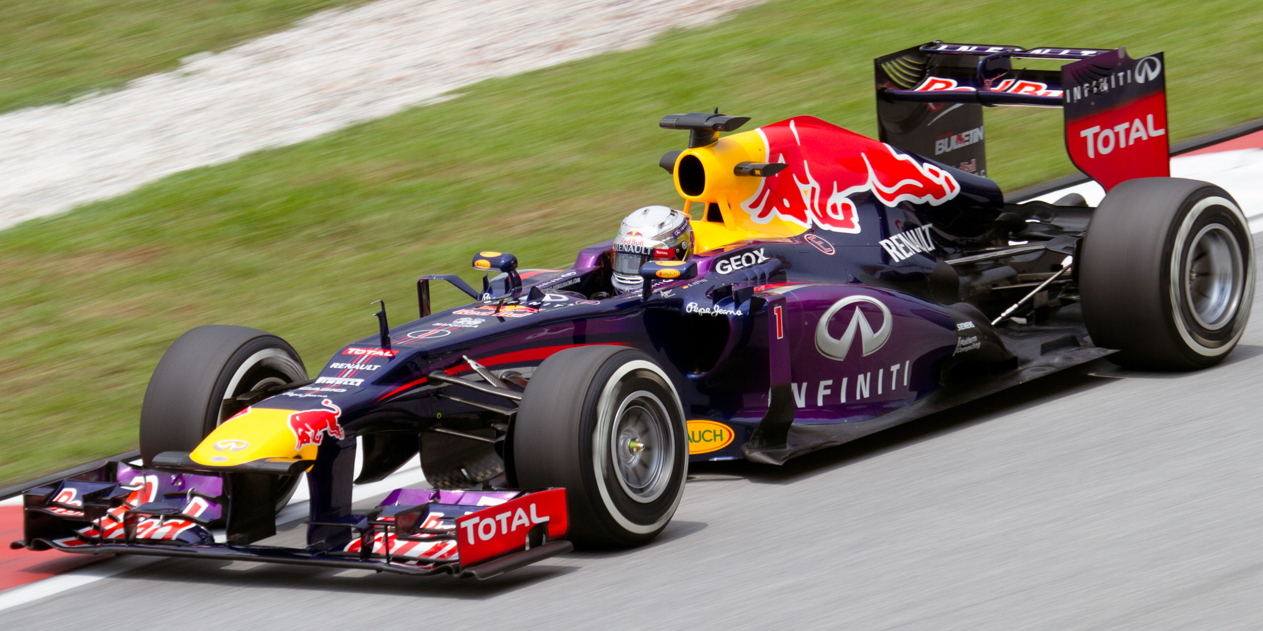 Formula One 2013 Rd.2 Malaysian GP: Sebastian Vettel (Red Bull) during the second practice session on Friday.